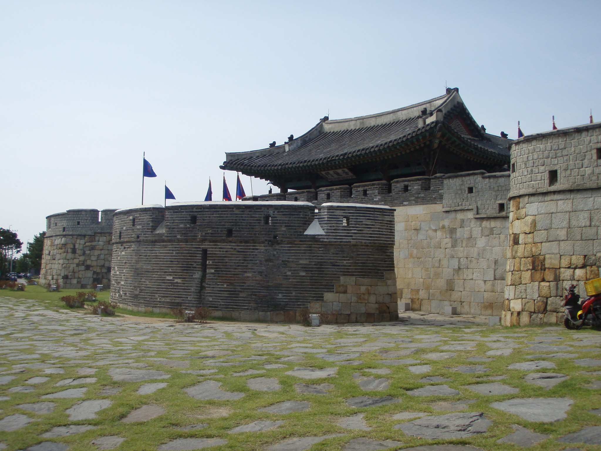 Changyongmun Hwaseong Fortress